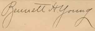 Signature of Confederate officer Bennett H. Young